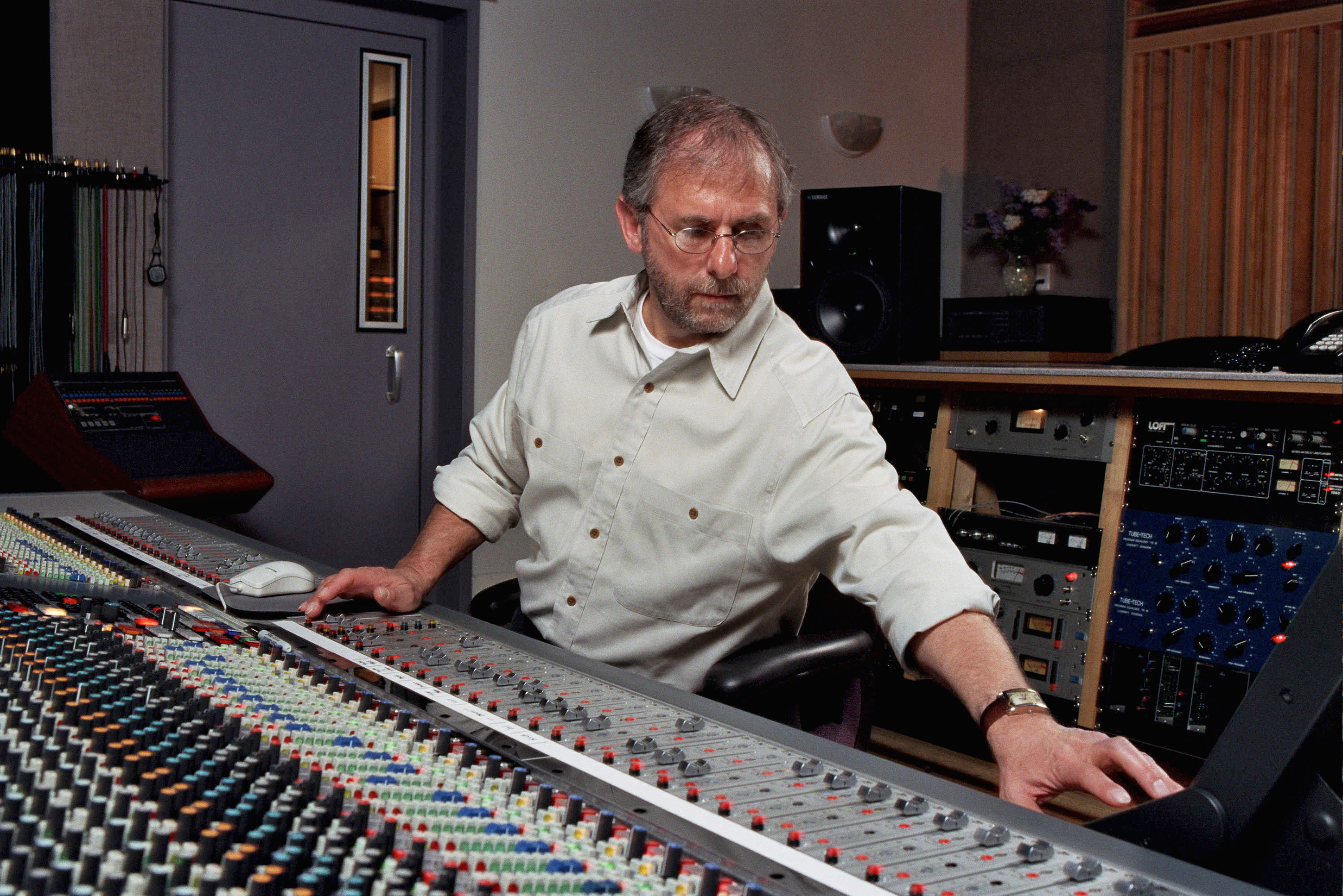 Elliot Scheiner mixing a recording in a studio